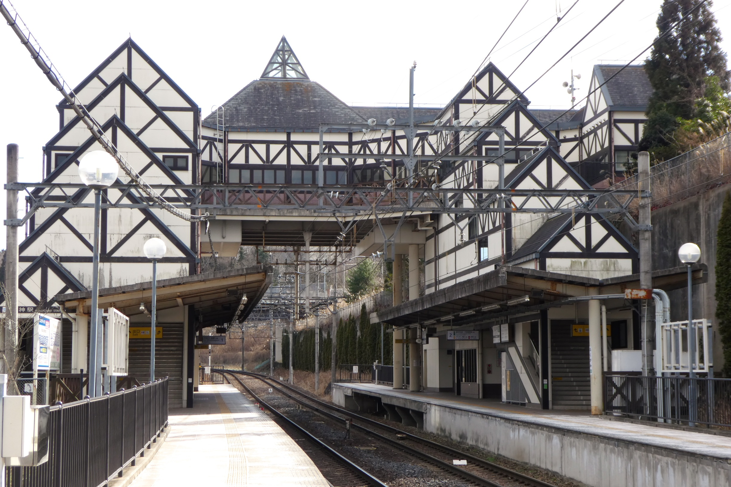 Fukugami Station, Kintetsu Yoshino Line